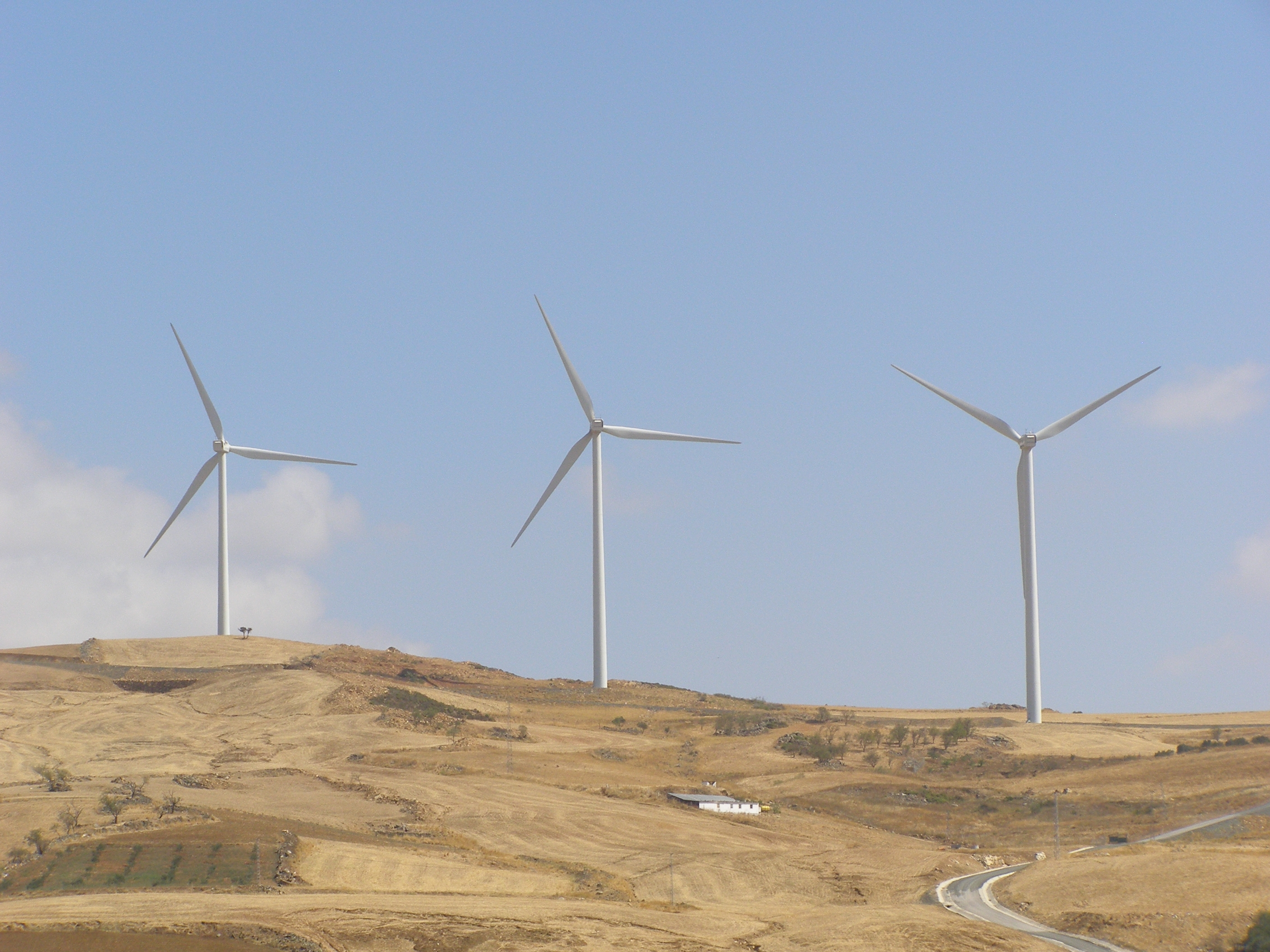 Ardales - wind turbines